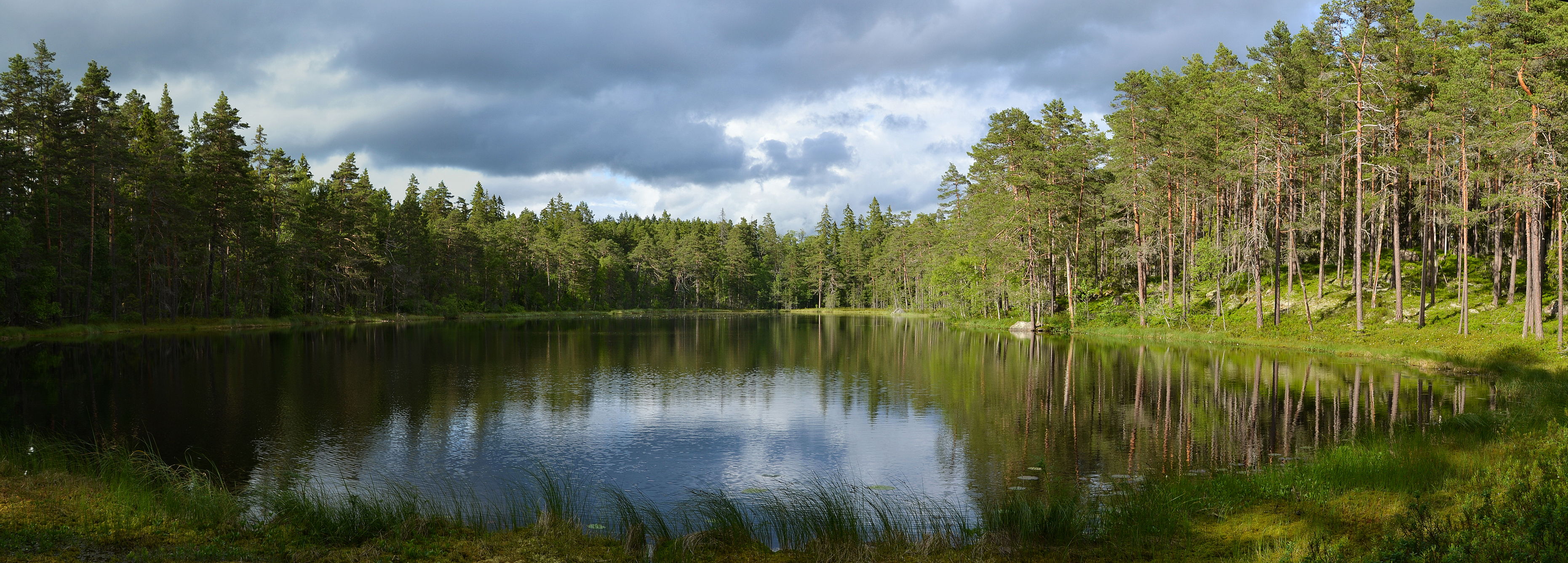 Norra Kvill National Park, Sweden